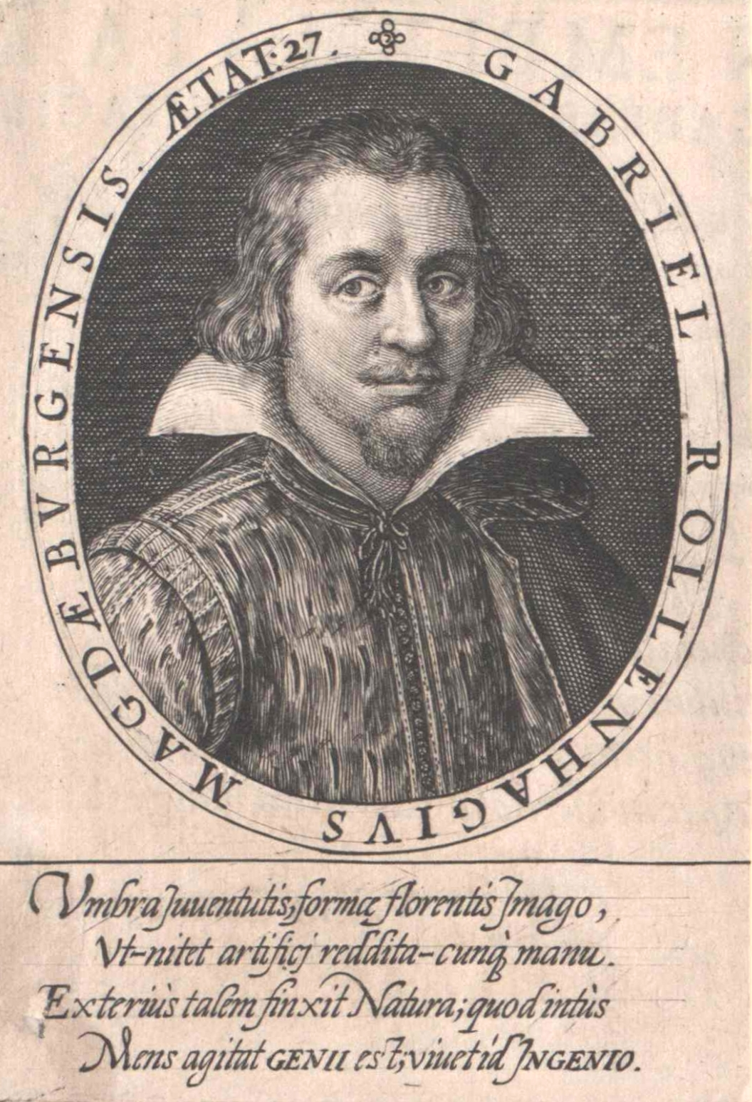 Gabriel Rollenhagen (1583–1619) Alternative names Gabriel Rollenhagius; Angelius Lohrber e Liga; Gabriel RollenhagueDescriptionGerman graphic artistDate of birth/death 22 March 1583 1619 Location of birth/death Magdeburg MagdeburgWork periodBaroqueera QS:P2348,Q37853Work location Magdeburg Authority control : Q96338 VIAF: 89369254 ISNI: 0000 0000 8399 2367 LCCN: n85206187 NLA: 35869528 WGA: ROLLENHAGEN, Gabriel WorldCat creator QS:P170,Q96338